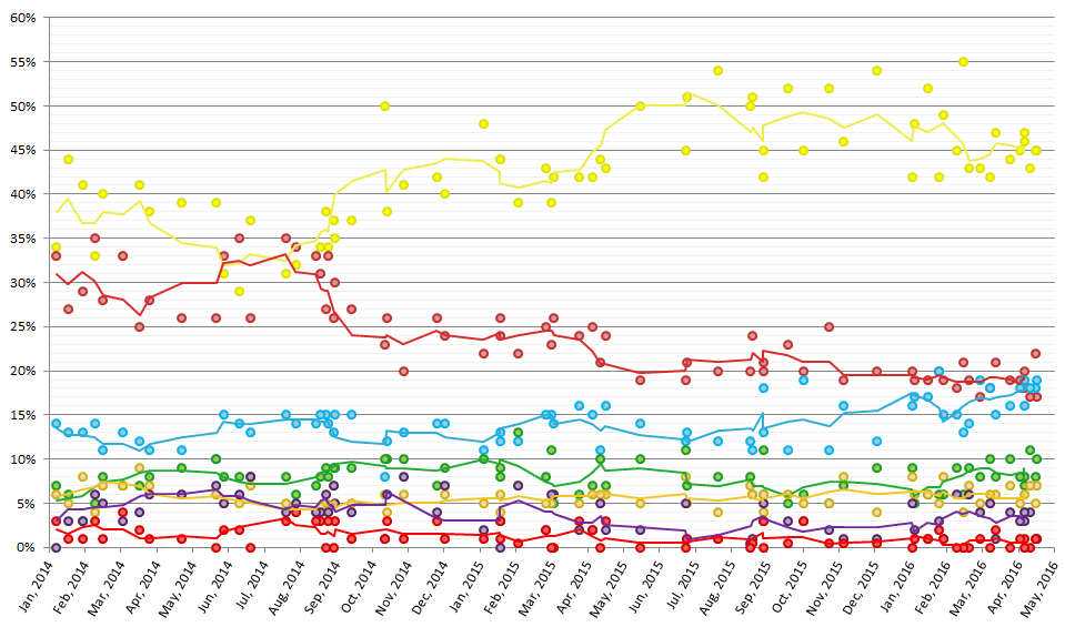 4-point average trend line of poll results from 1 January 2014 to 28 April 2016, with each line corresponding to a political party. SNP Labour Conservatives Greens Lib Dems UKIP Socialists The chart shows the relative state of the parties from the start of 2014, when regular polling began, to the date the next election is held.